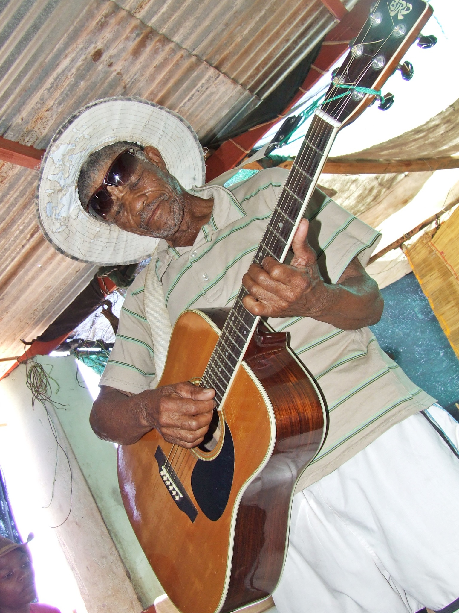 This is an image with the theme "Play" from: Namibia